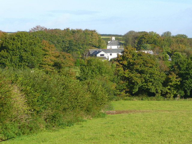 View to Bodrigan Looking north from Spittal Lane.